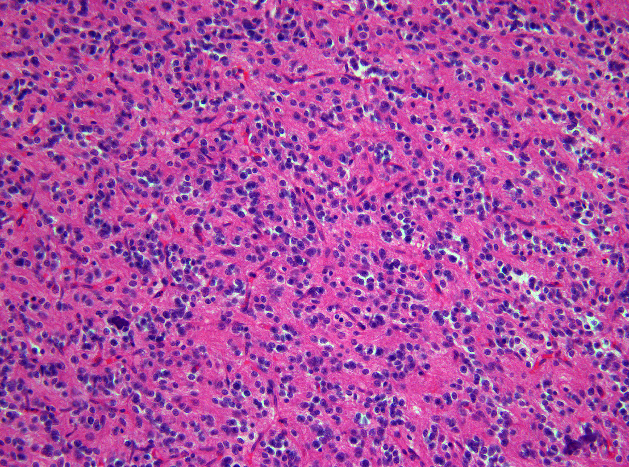 Histopathology of Neurocytoma. H&E staining. Magnification 200x